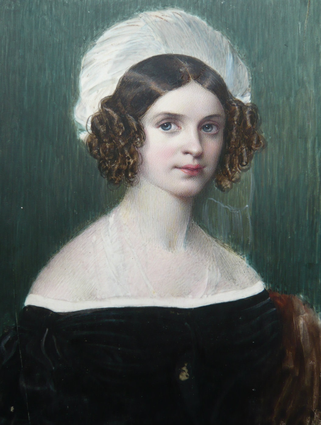 Princess of Saxony, Amalie Auguste of Bavaria, painting on sheet of ivory, 14x19 cm